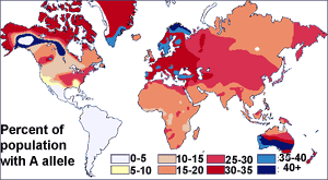 based on diagrams from